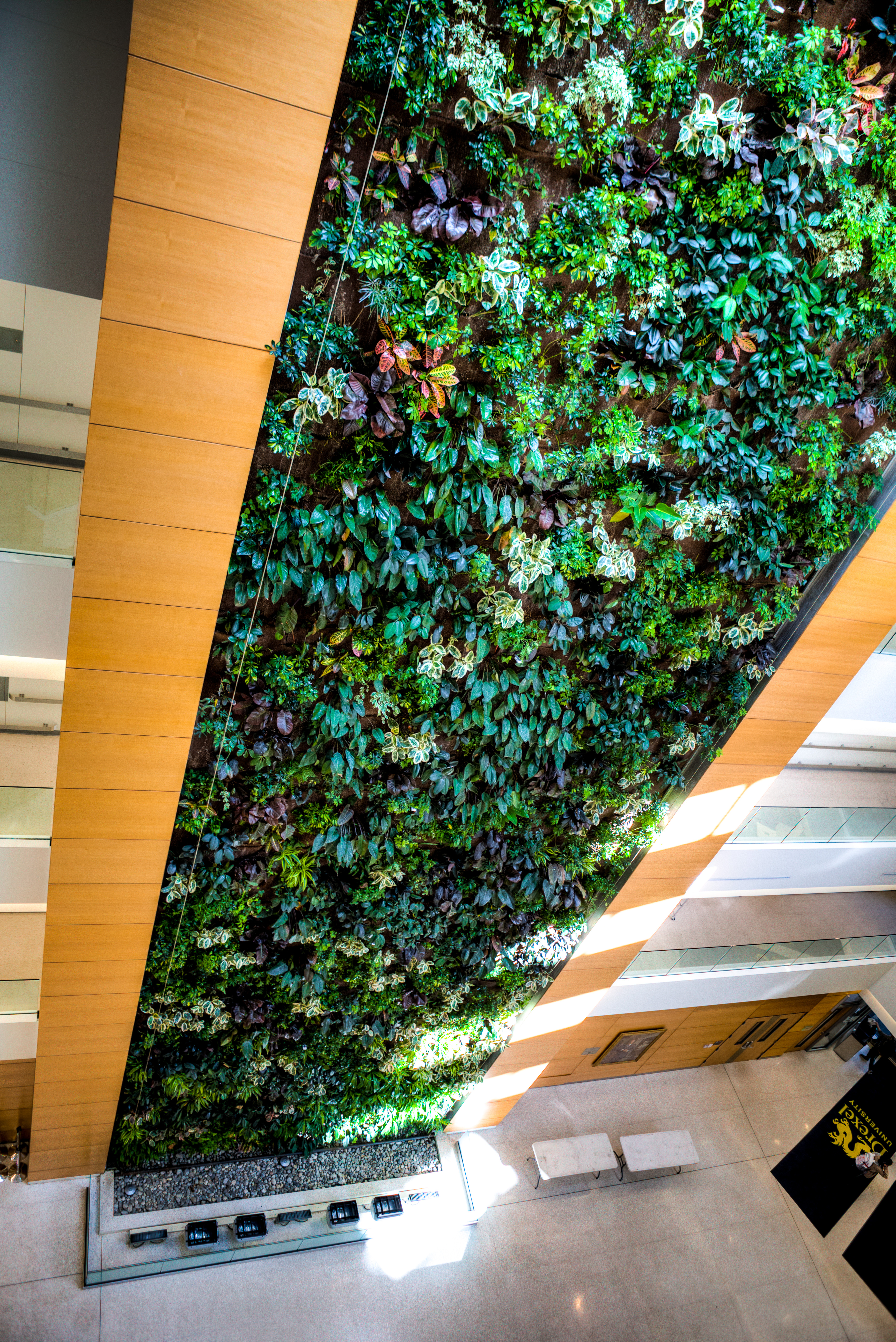 A "living wall" inside the Papadakis Integrated Science Building at Drexel University